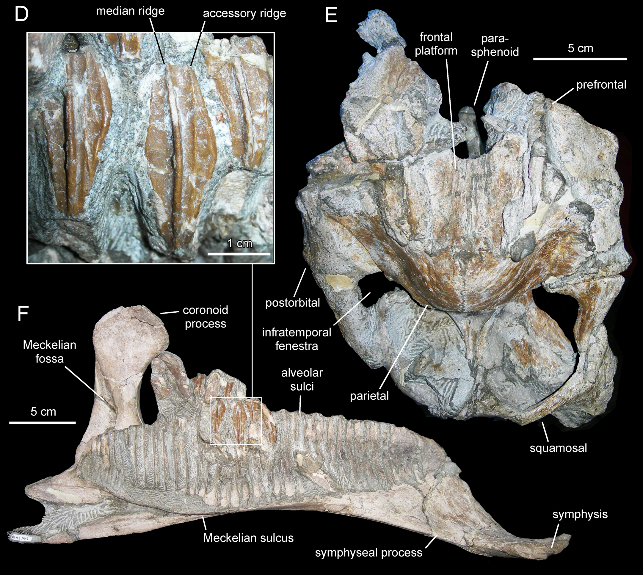 D. Dentary tooth crowns of Arenysaurus ardevoli (MPZ 2008/258) in lingual view. E. Caudal region of the skull roof of A. ardevoli (MPZ 2008/1) in dorsal view. F. Left dentary of A. ardevoli (MPZ 2008/258) in medial view.